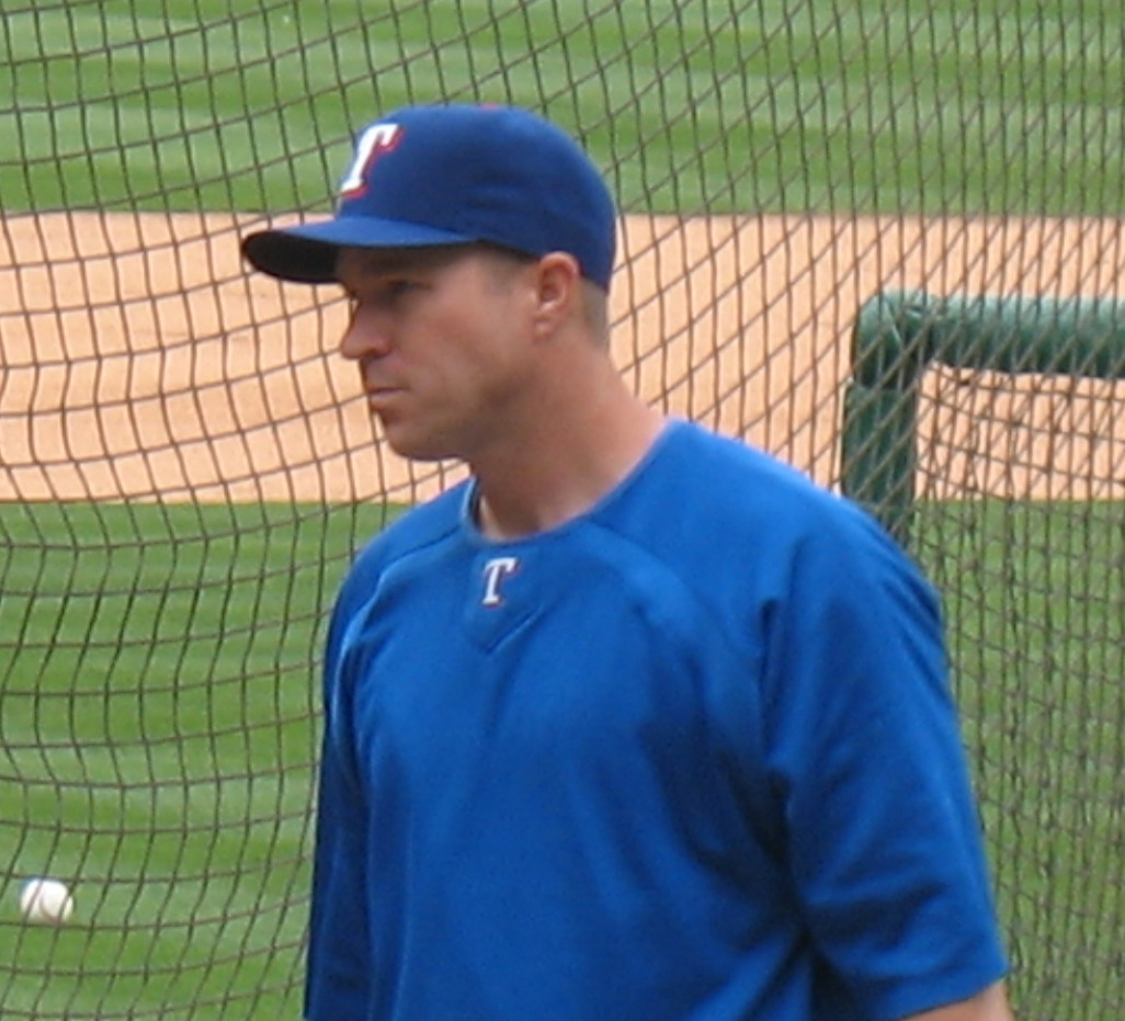 Adam Melhuse, catcher for the Texas Rangers during batting practice at Rangers Ballpark in Arlington